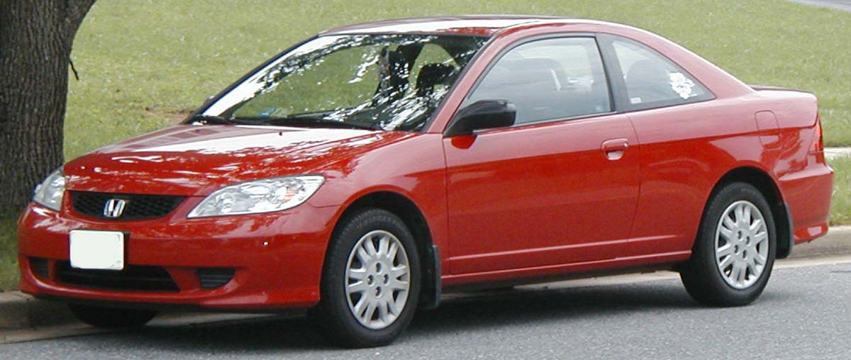 2004-2005 Honda Civic coupe photographed in USA.